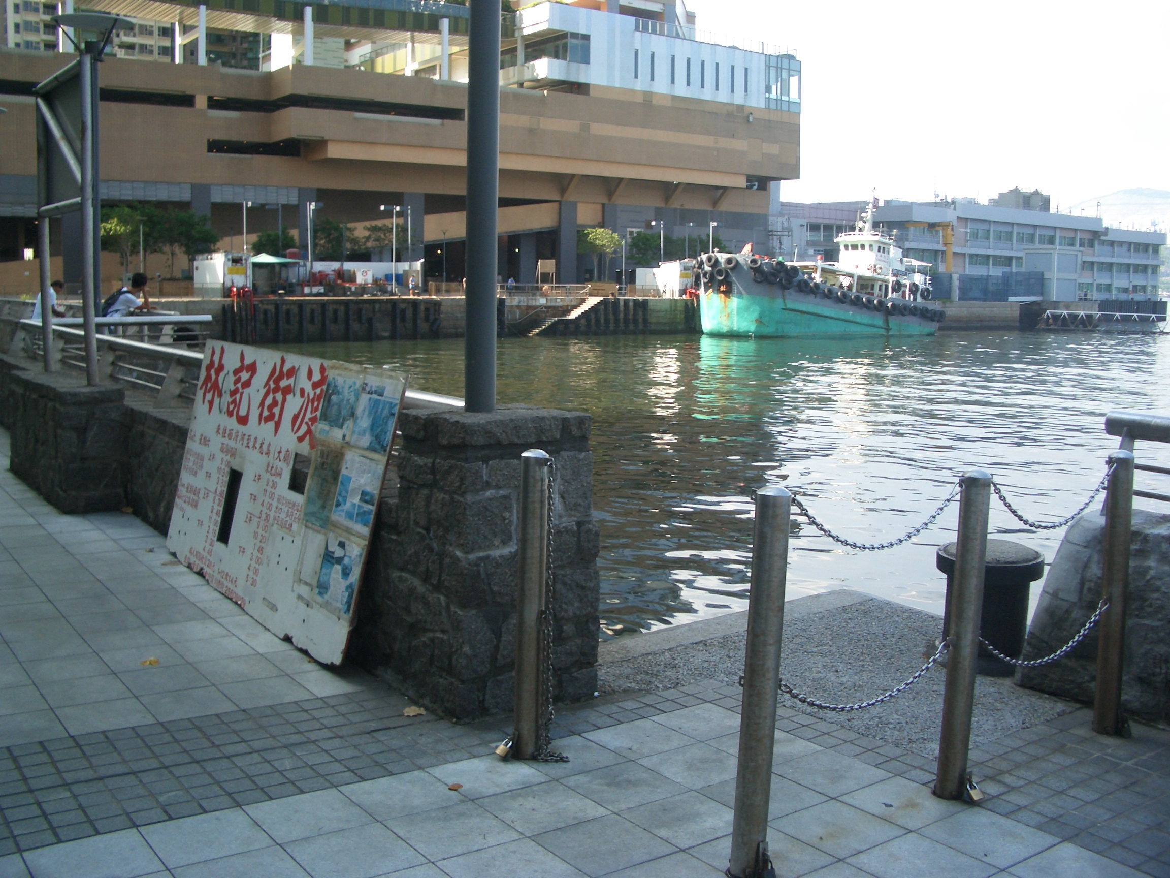 Boarding Place of Lam Kee Ferry at Sai Wan Ho 中文（香港）: 林記街渡西灣河上船位置